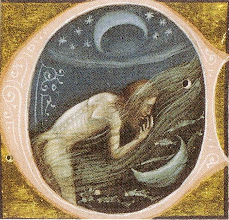 Lucius takes human form, illustration of Apuleius Metamorphoses c. 65. Manuscript Vat. Lat. 2194 in the Biblioteca Apostolica Vaticana in Rome.